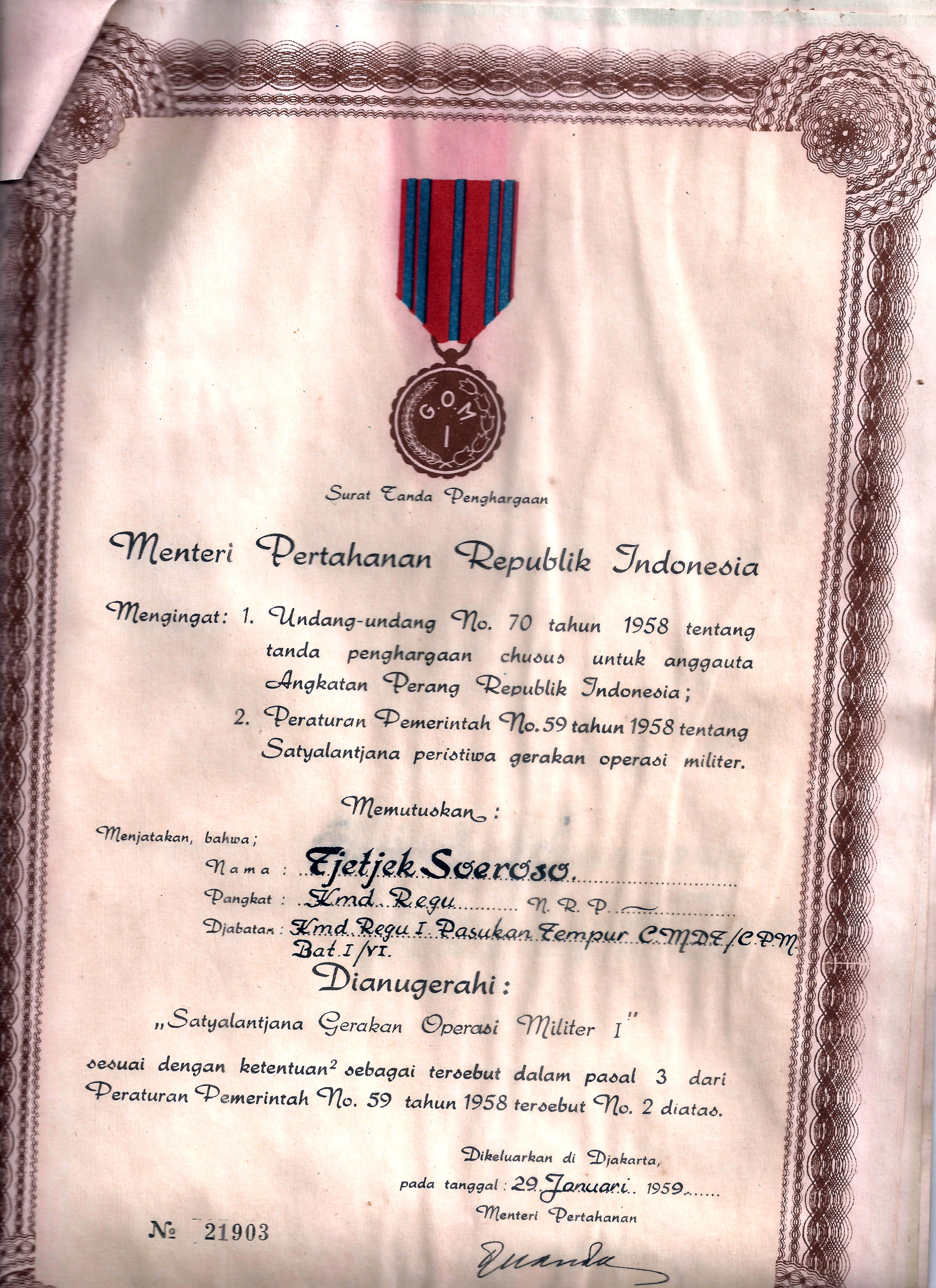 Gerakan Operasi Militer I diploma as received by my grandfather